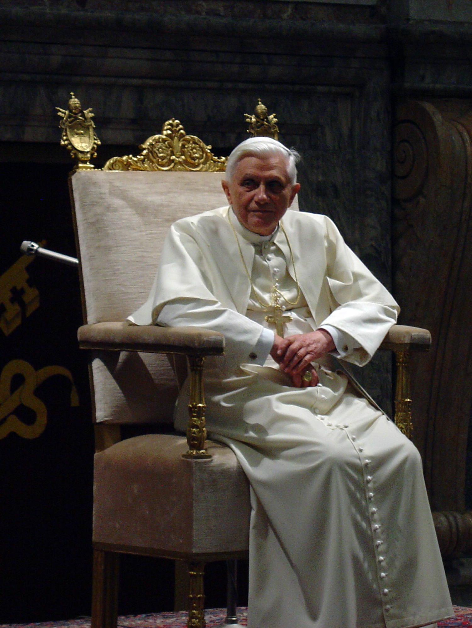 Pope Benedictus XVI at a private audience, January 20, 2006.